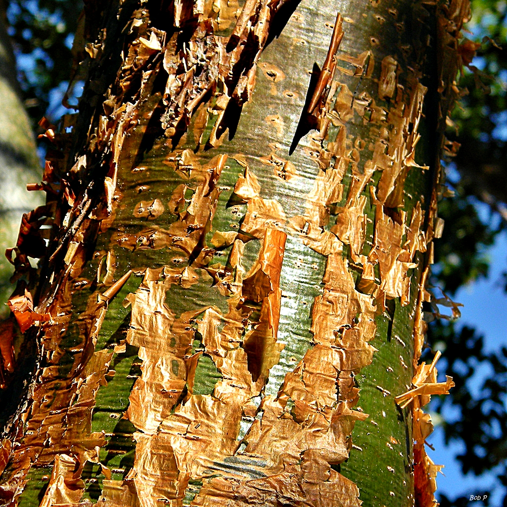 This native tropical hammock tree has been a favorite of mine since I was a toddler. It grows to 64 feet in south Florida and has been called the "tourist tree" because of its flaky, peeling reddish bark which resembles sunburnt skin. Green branches stuck in the ground will usually root and grow. This one lives on Munyon Island near North Palm Beach, Florida. Gumbo limbo has such a large variety of economic, wildlife and medicinal uses that I'll just post the Wikipedia link for those interested: and